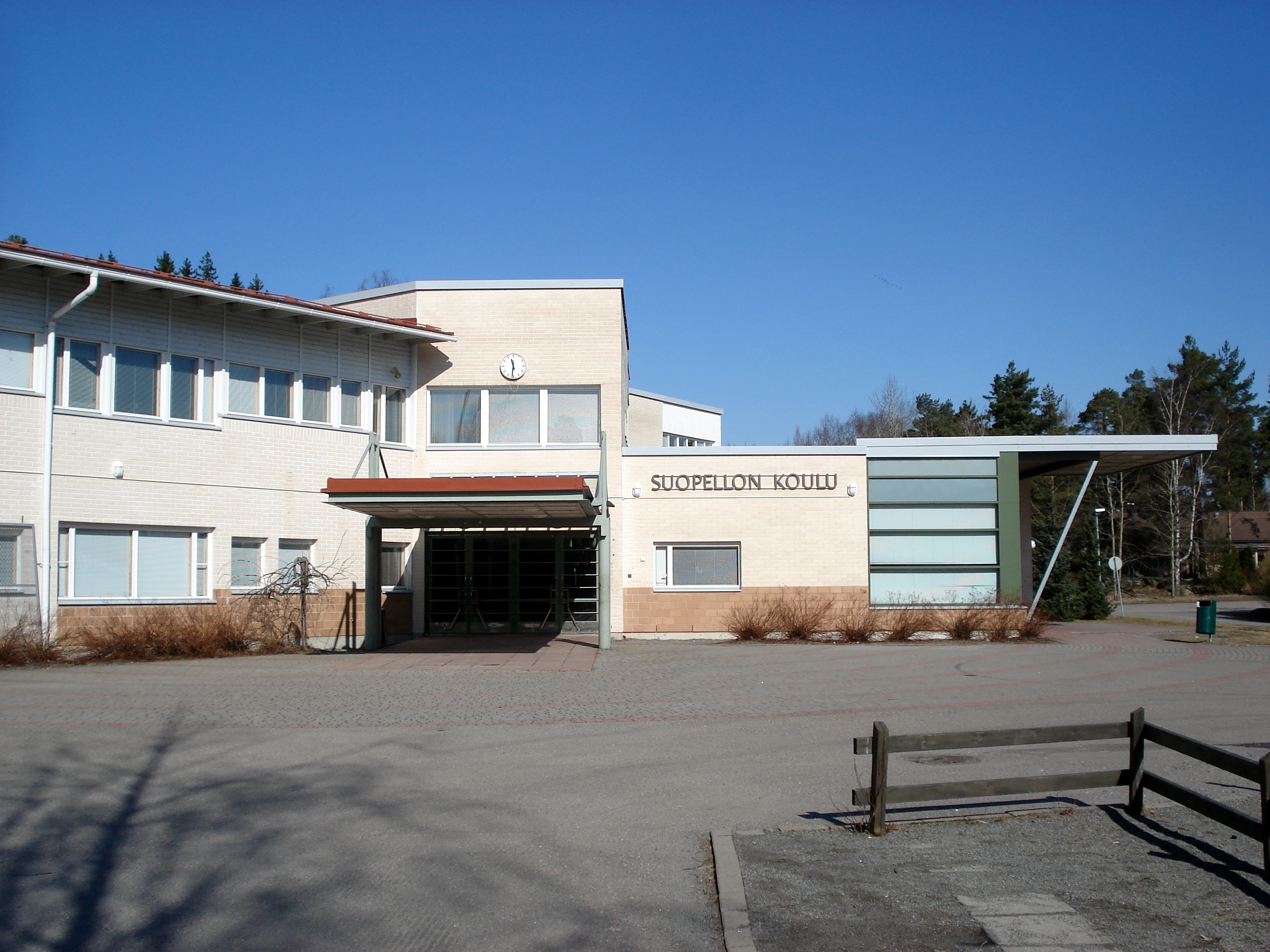 School of Suopelto in City of Naantali, Finland.